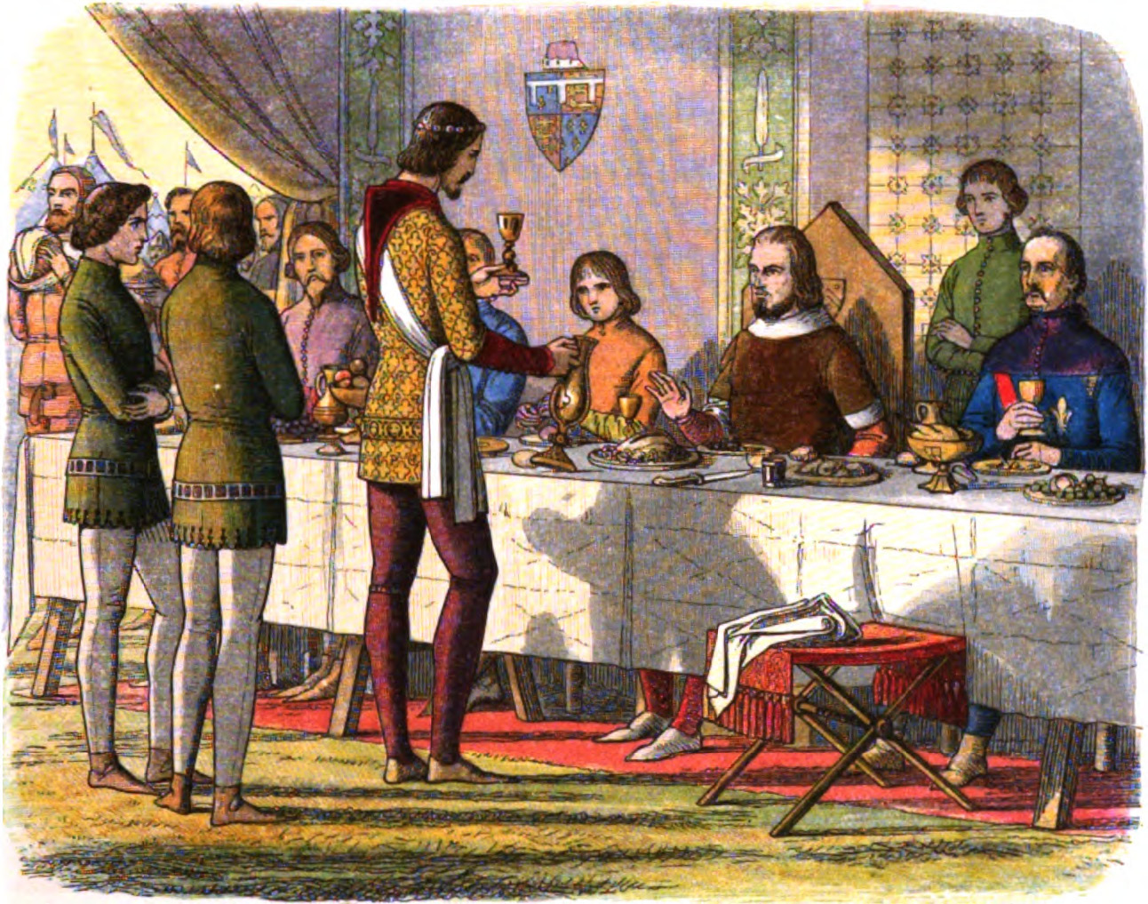 John II of France is taken hostage by Edward, the Black Prince, and treated well with a dinner.